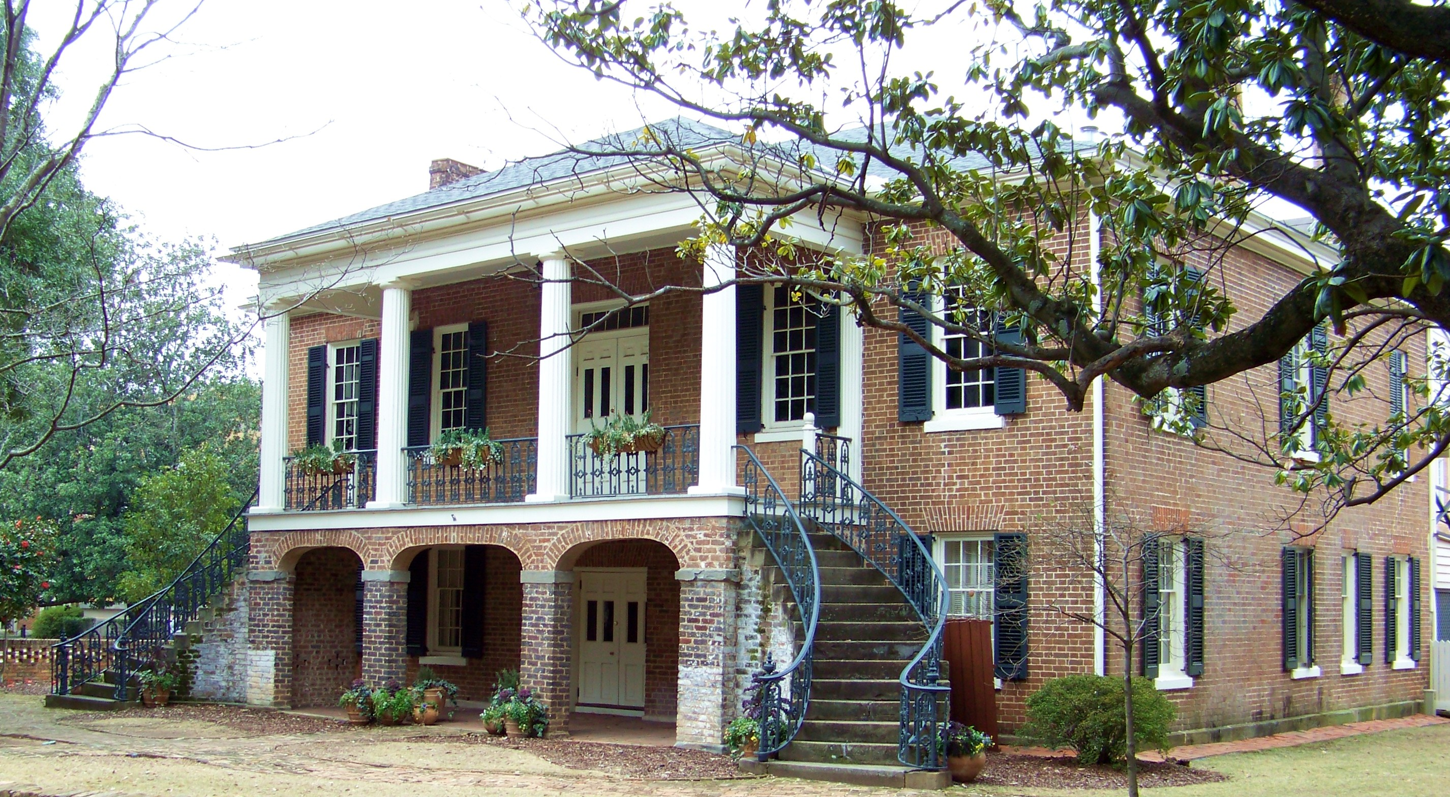 The Gorgas House on the University of Alabama campus in Tuscaloosa, Alabama. Designed by William Nichols and completed in 1829, it is the oldest surviving building on campus.